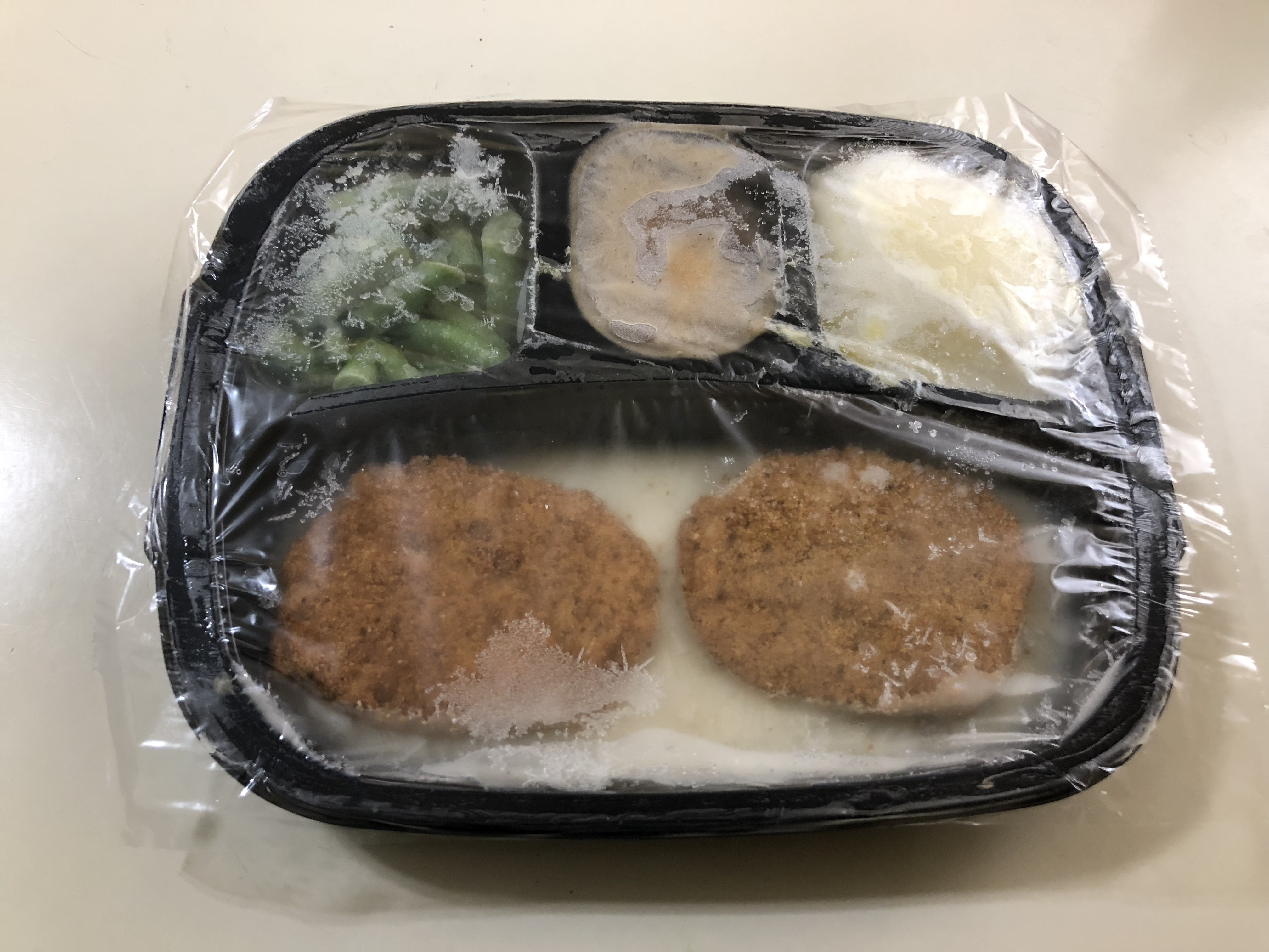 A Hungry-Man Country Fried Chicken TV dinner before being heated in the Franklin Farm section of Oak Hill, Fairfax County, Virginia